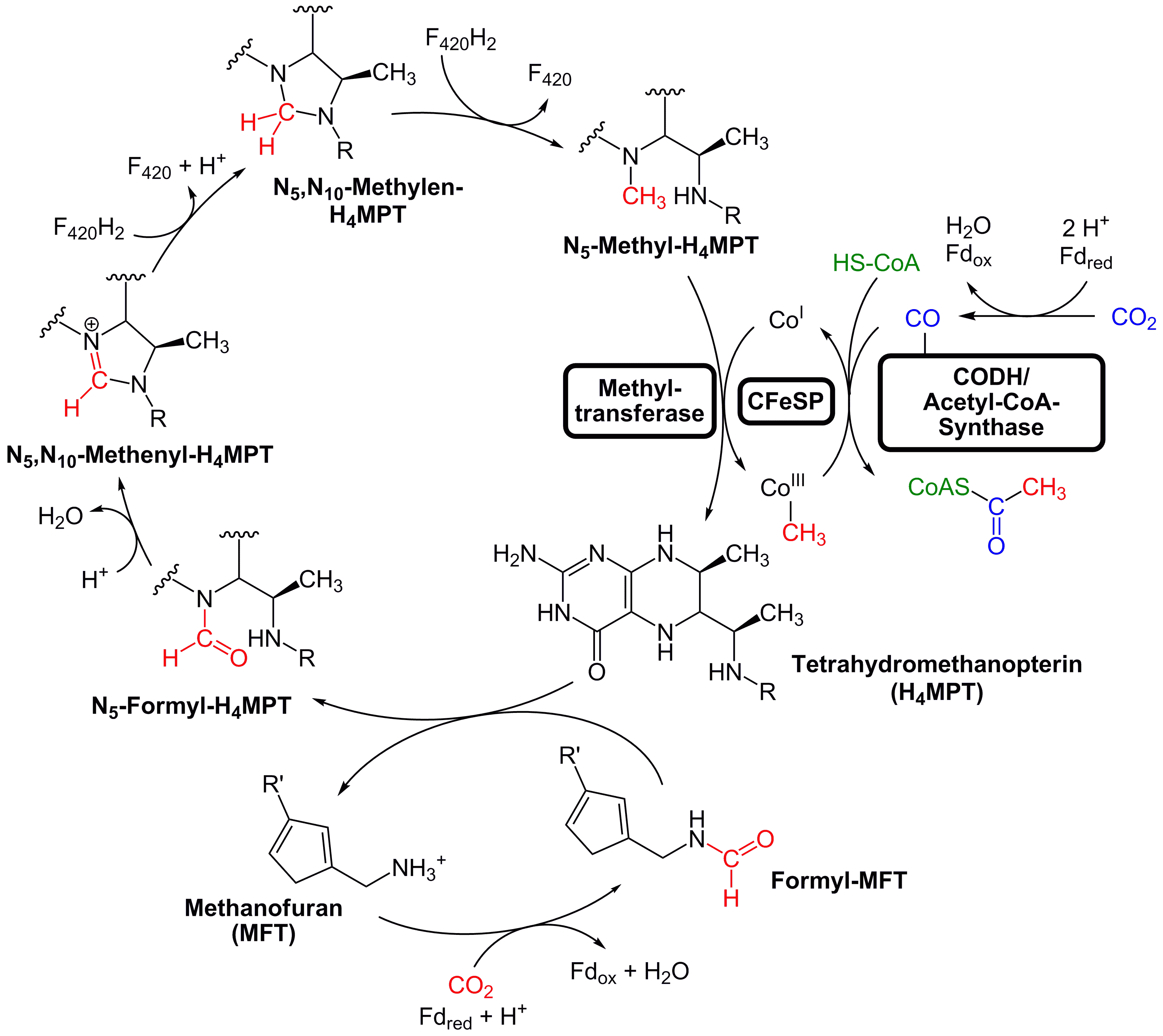 the reductive acetyl-CoA pathway in archaea